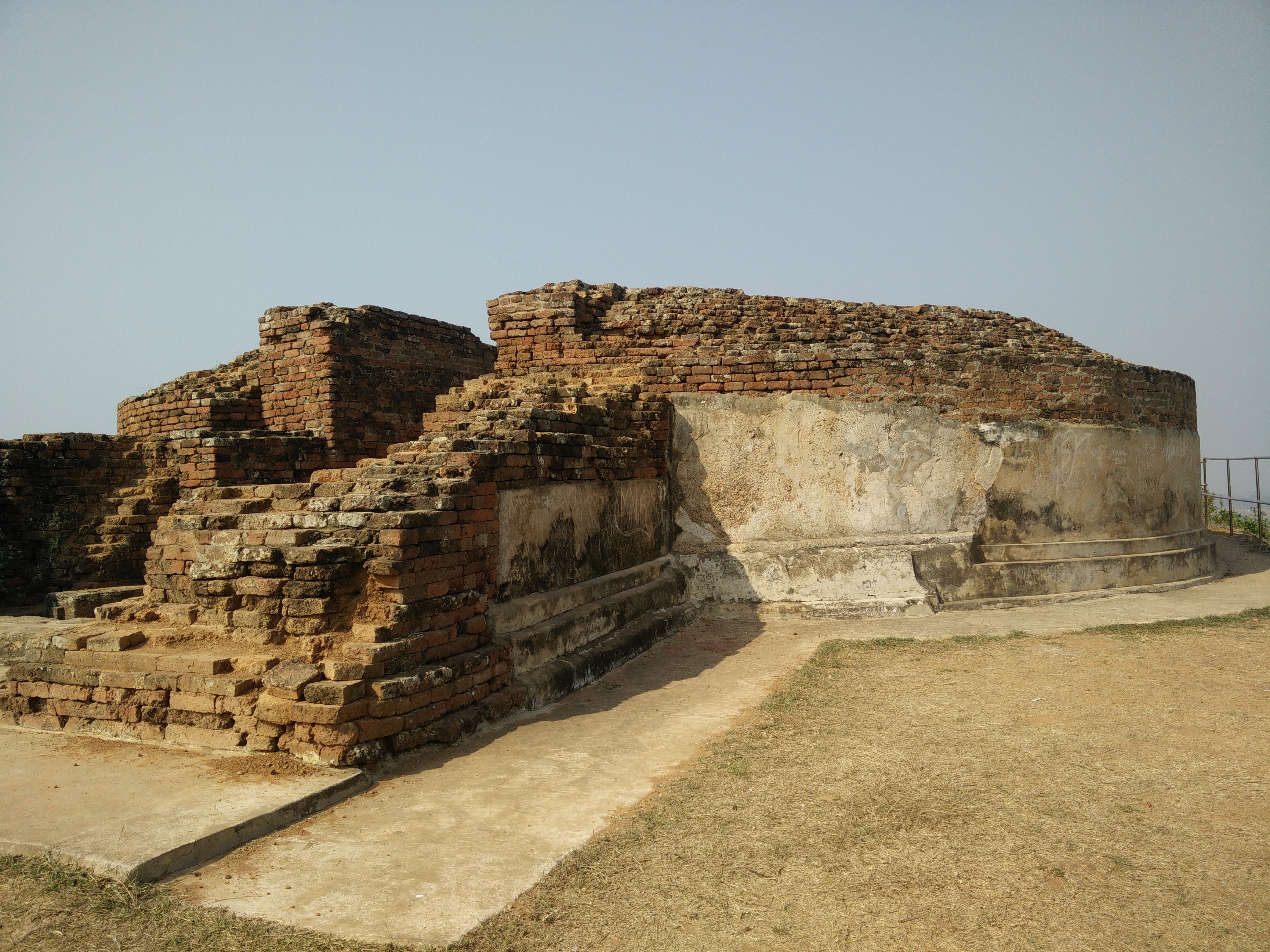 Salihundam Stupam, Srikakulam district, Andhra Pradesh, India